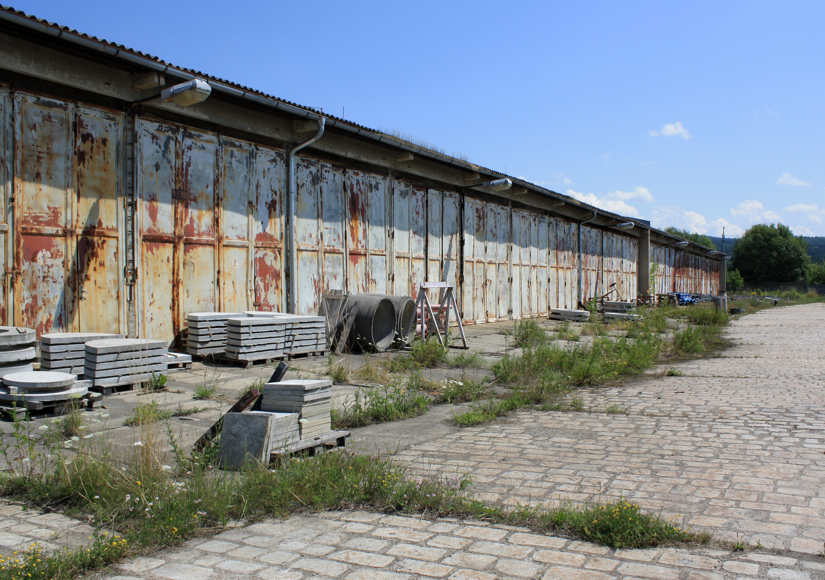 Old barracks in Strašice, Czech Republic